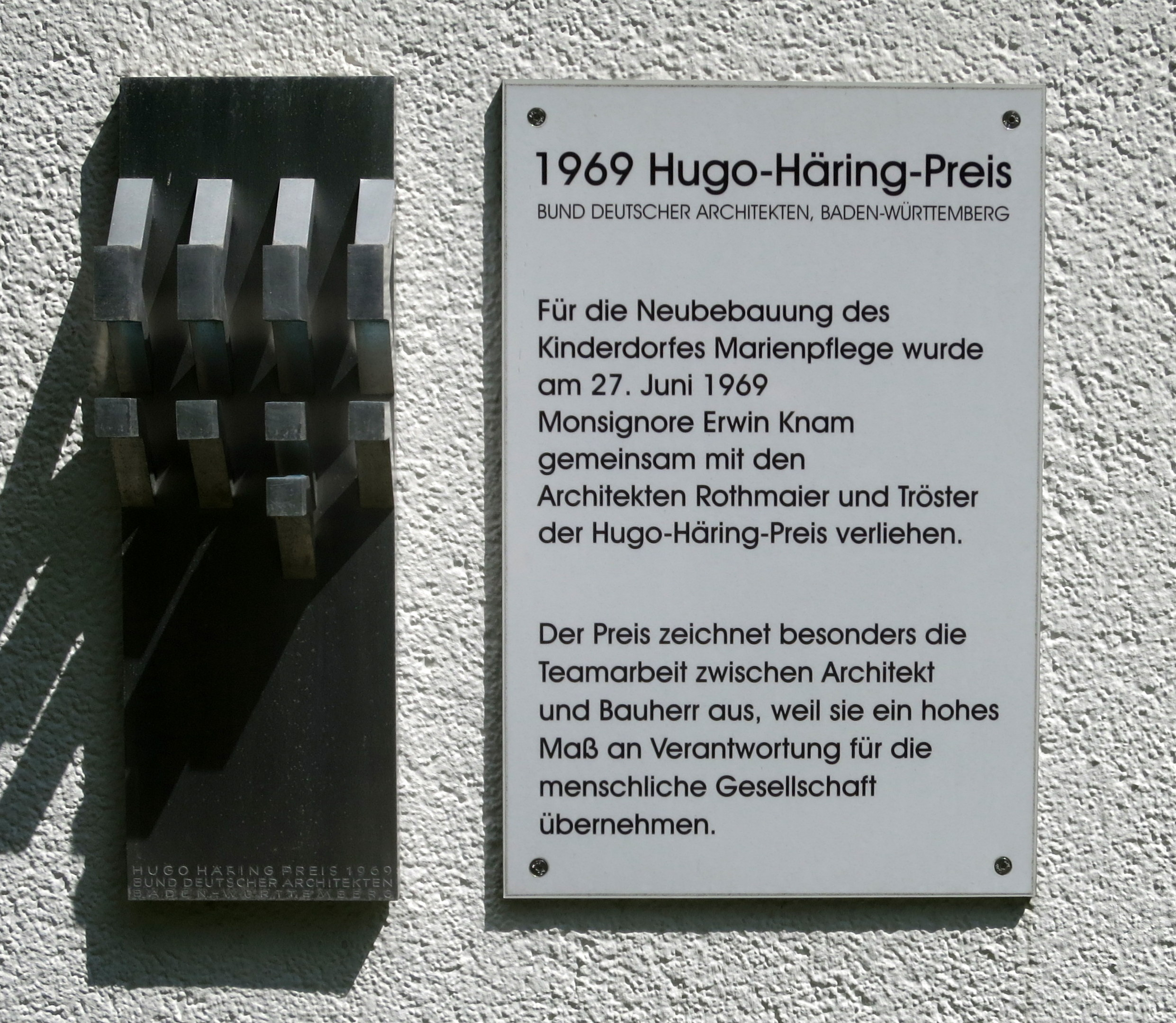 Village for children - pictures of the site Marienpflege Ellwangen